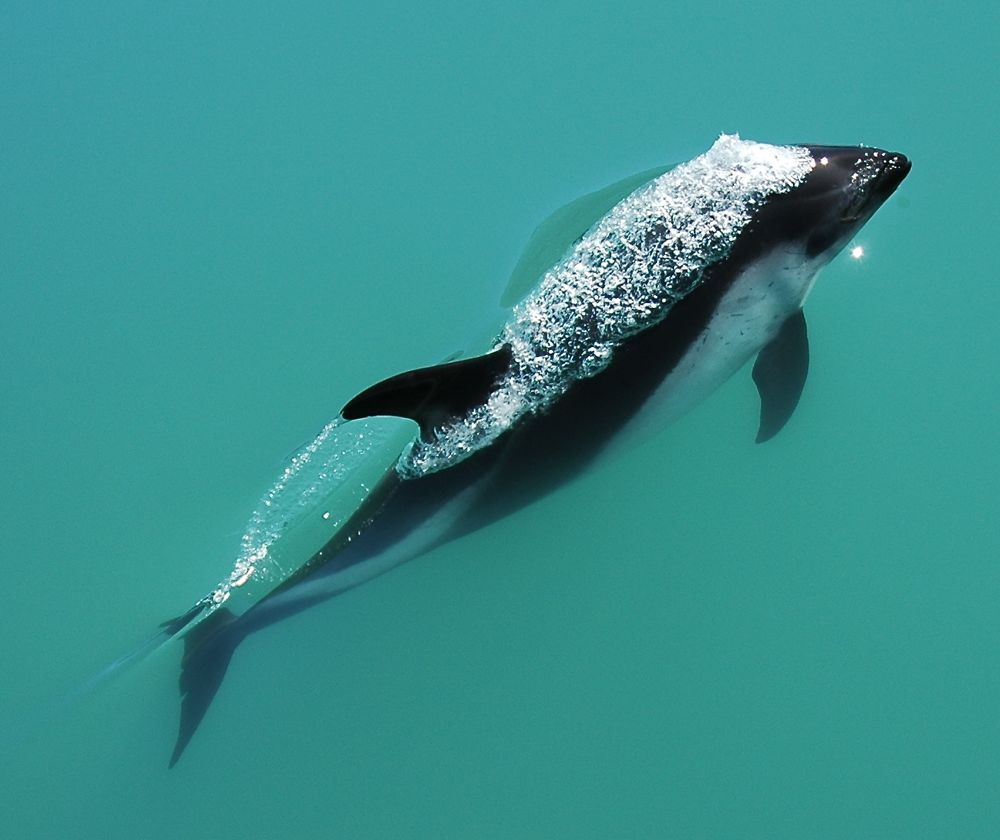 Peale's Dolphin, Near Ventisquero Pio XI, Feb 2006 Lagenorhynchus australis (taken at Ventisquero Pio XI, Chilean Patagonia)